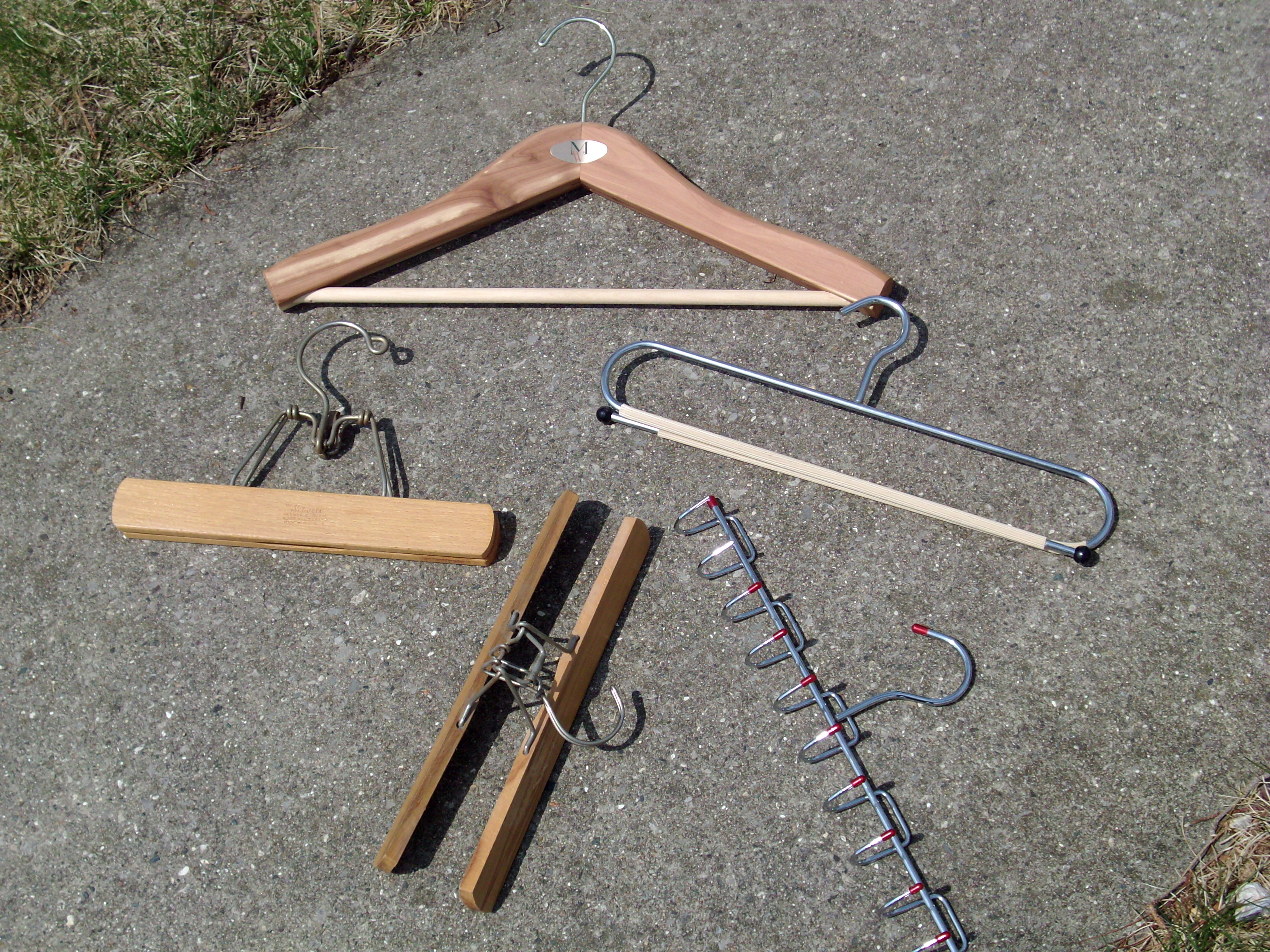 Various clothes hangers